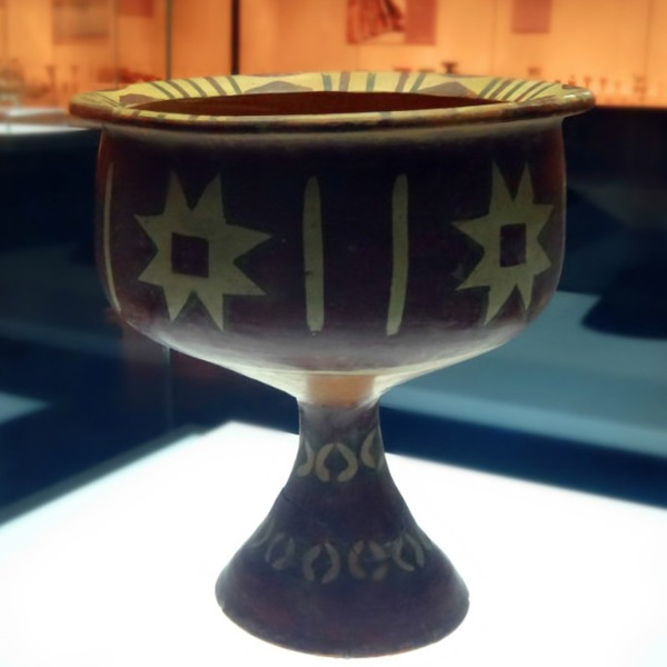 Painted Pottery Dou with Octagram Design, Dawenkou Culture. Neolithic